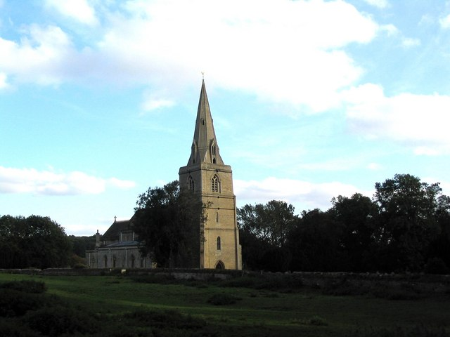 Church of St Peter, Deene In an unusually open setting (for a church) close to Deene Hall. The graveyard contains a number of fine memorials.